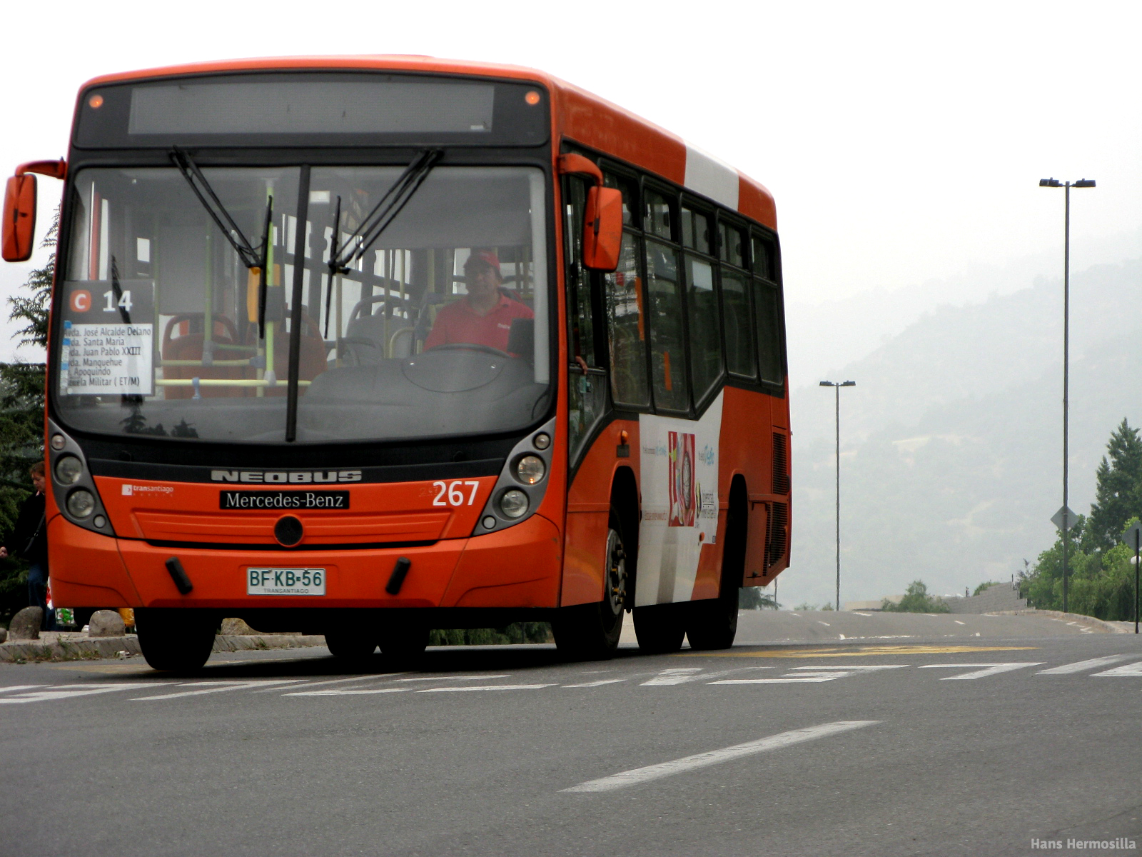 Neobus bus (reg. BF-KB-56, #267) with Mercedes-Benz chassis in Santiago de Chile, Chile. Redbus Veolia Transporte operator.